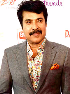 Mammootty at 62nd Britannia Filmfare South Awards 2014